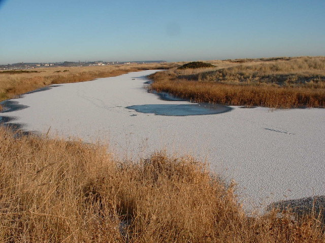 The Elliot Water. Pictured is the frozen Elliot water which is an abandoned river meander. It is situated in amongst a sand dune system between a railway line and a sandy beach.